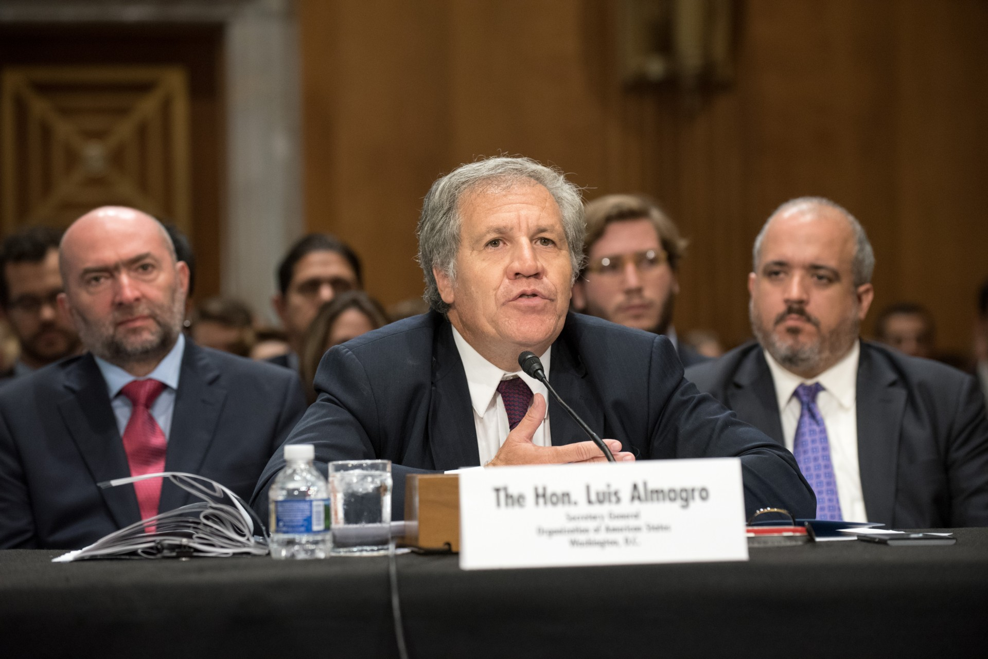 OAS Secretary General Luis Almagro testifies on 19 July 2017 to the Senate Foreign Relations Committee's Subcommittee on Western Hemisphere, Transnational Crime, Civilian Security, Democracy, Human Rights, and Global Women’s Issues